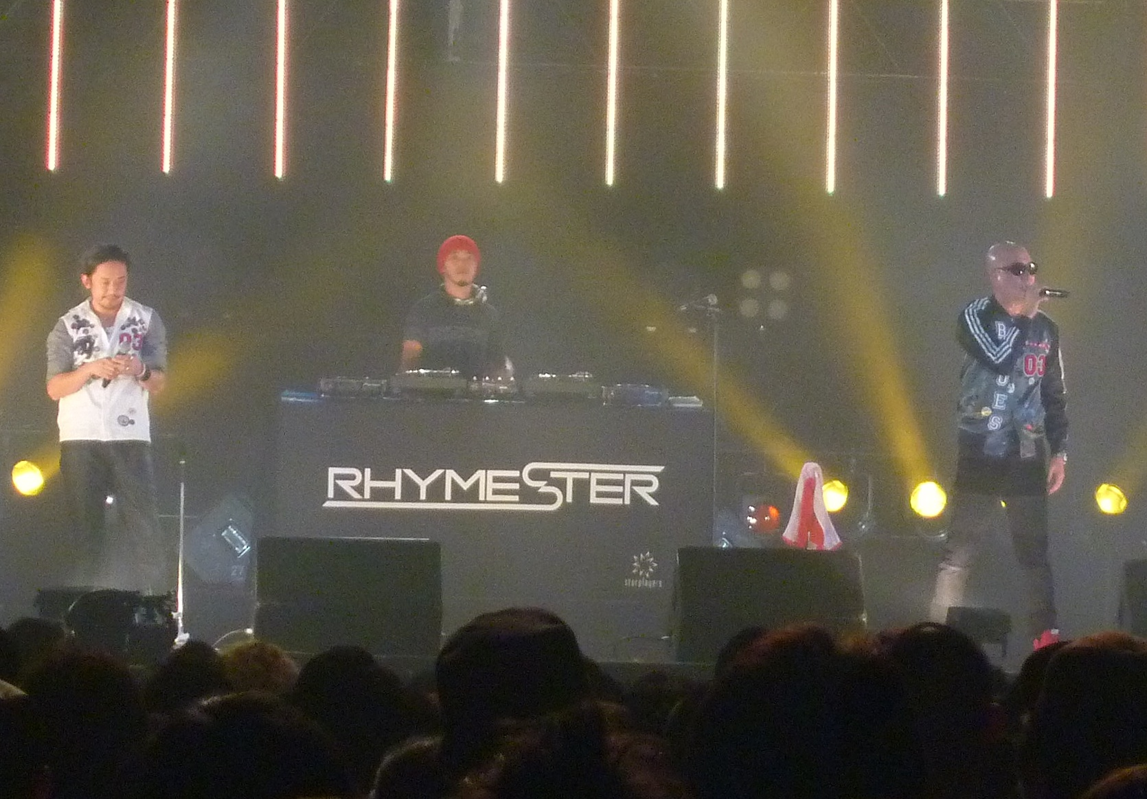 J-pop group "Rhymester" (at "Countdown Japan" music festival.) Personality rights warning Although this work is freely licensed or in the public domain, the person(s) shown may have rights that legally restrict certain re-uses unless those depicted consent to such uses. In these cases, a model release or other evidence of consent could protect you from infringement claims.